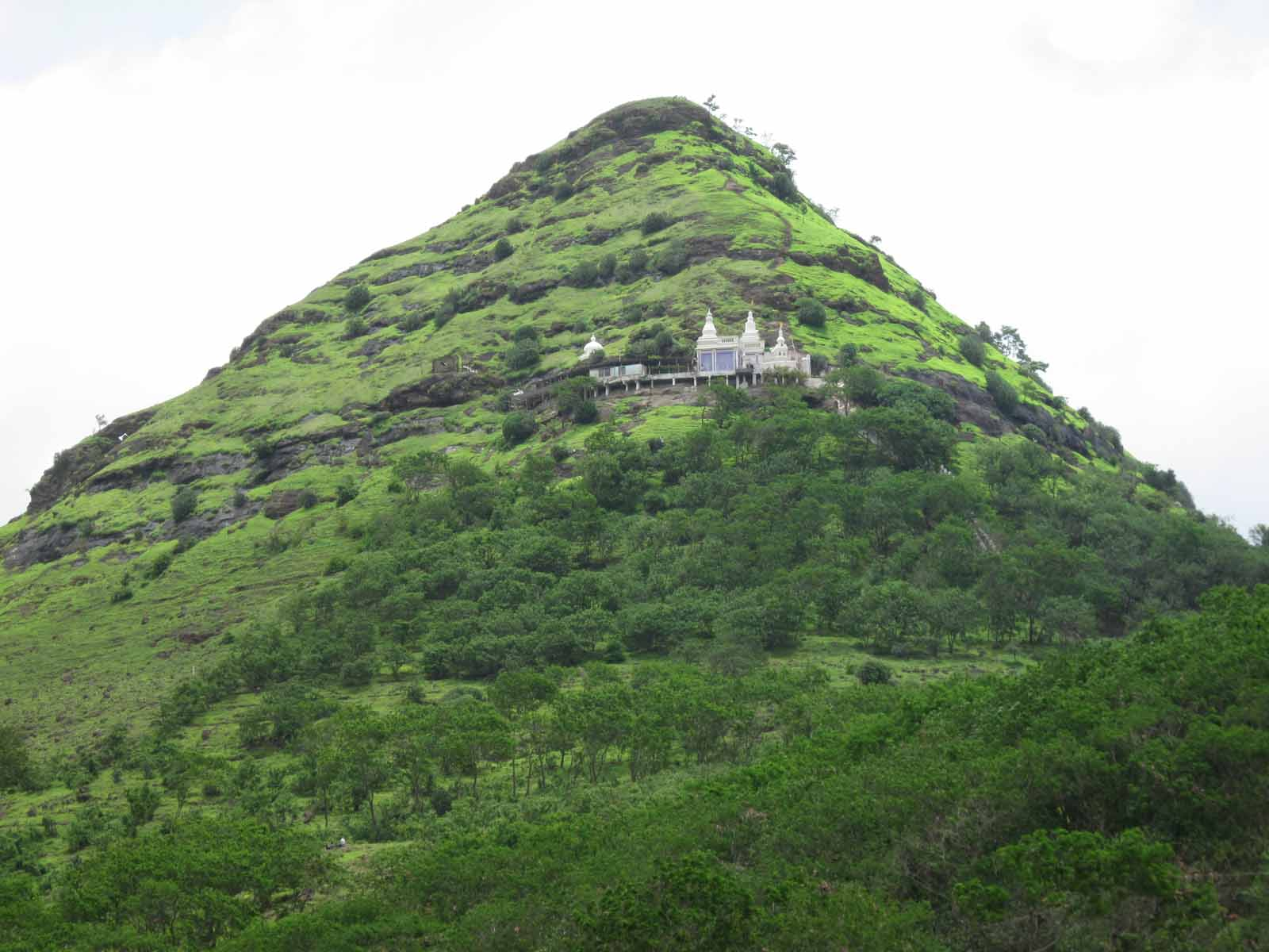 Photo for Wiki Takes Nashik